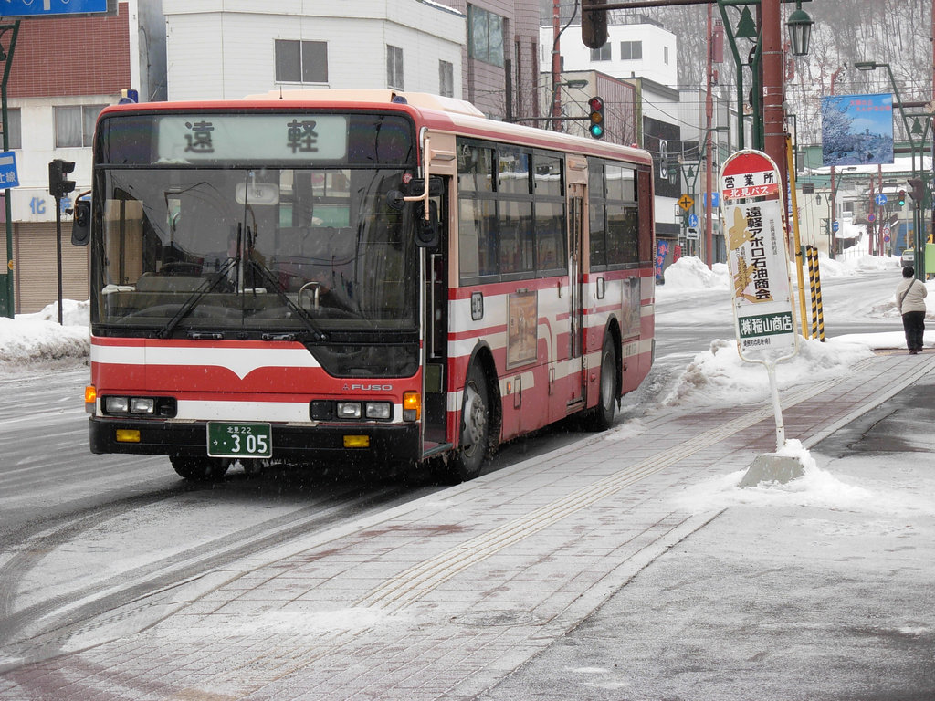 Hokumon Bus car 北紋バスの車両